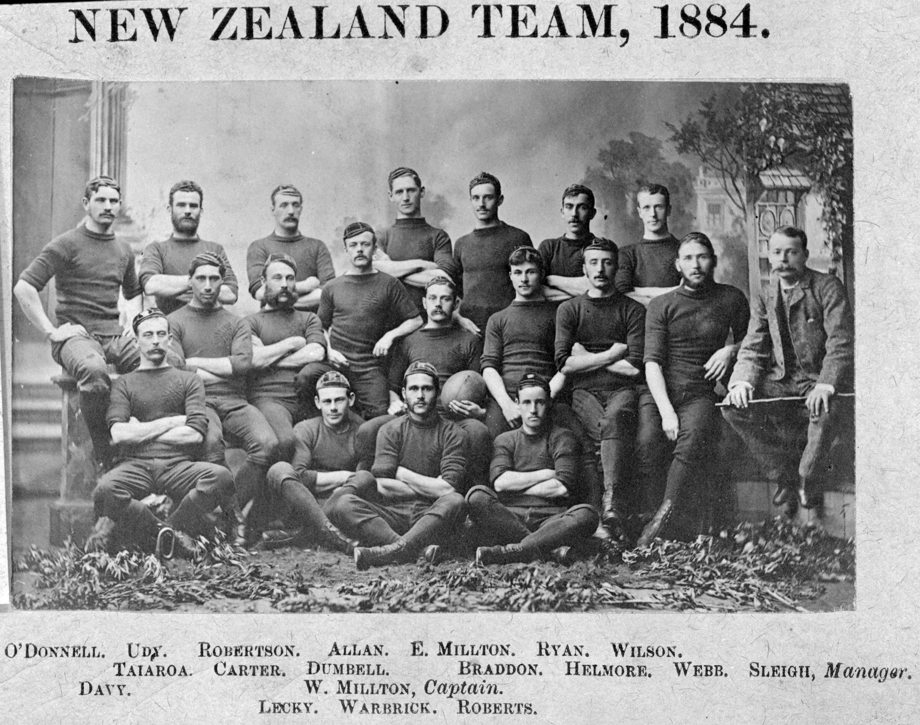 New Zealand in New South Wales, 1884. The first representative New Zealand rugby team, which toured New South Wales, Australia in 1884. Back row from left to right: Timothy O'Connor, Hart Udy, George Robertson, James Allan, Edward Millton, Thomas Ryan, Robert Wilson Middle row:Edwin Davy, John Taiaroa, George Carter, John Dumbell, William Millton, Henry Braddon, George Helmore, Peter Webb, Samuel Sleigh (manager) Seated in front: John Lecky, Joe Warbrick, Henry Roberts